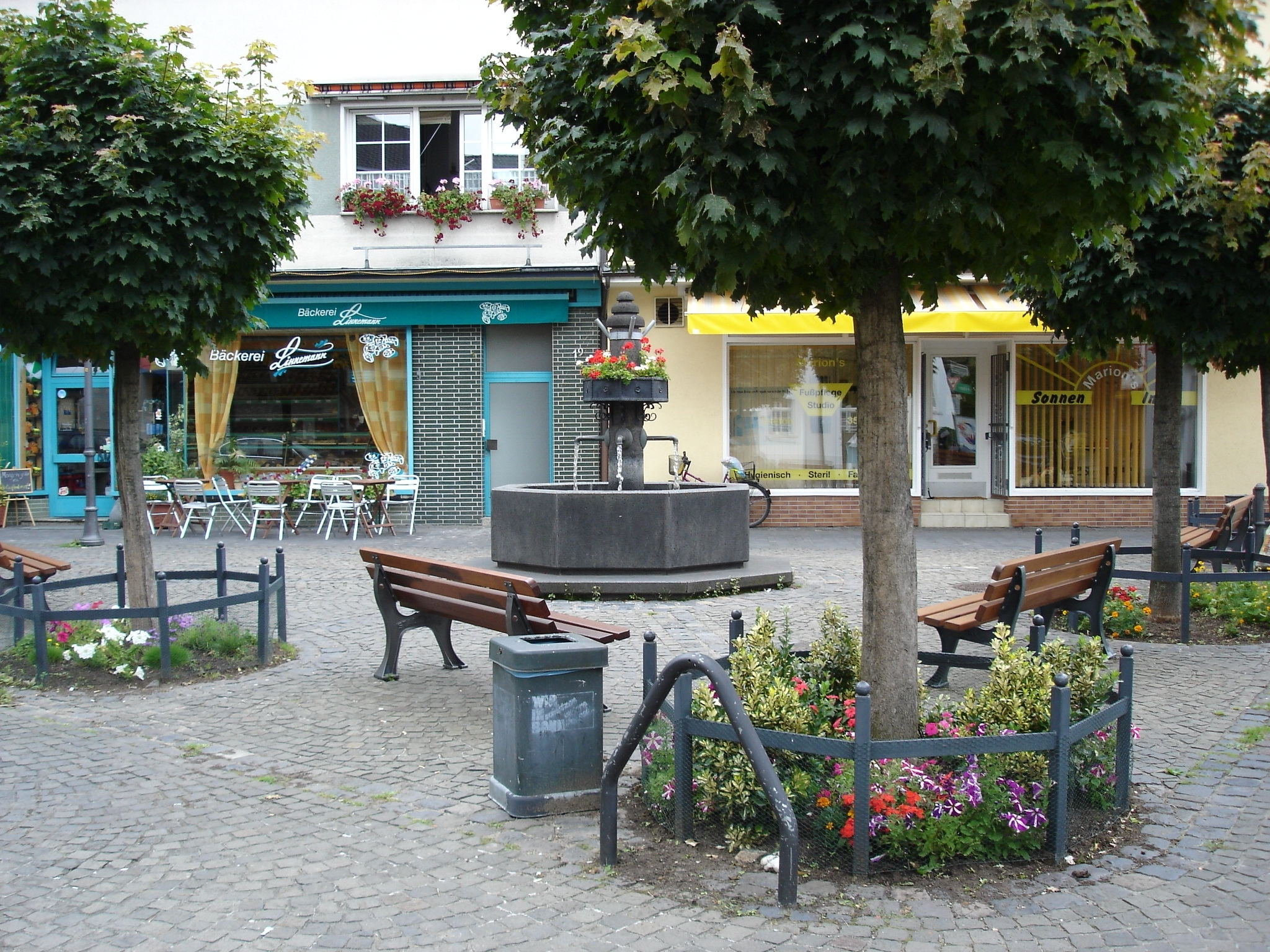 Historical village square of Bonn-Rüngsdorf